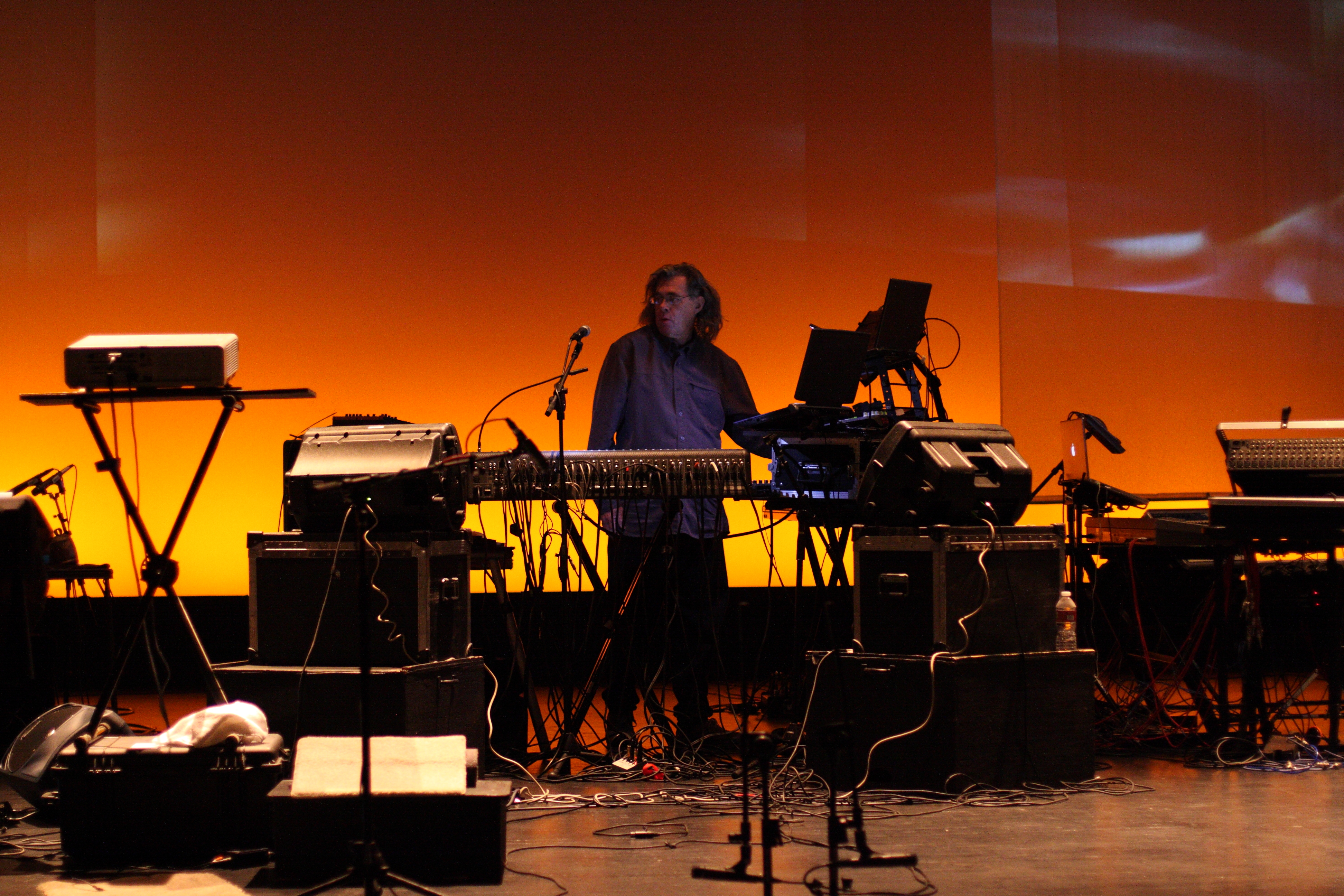 Steve Roach performing at SoundQuest Fest in October 2010. Photographed on a Canon EOS 40D.